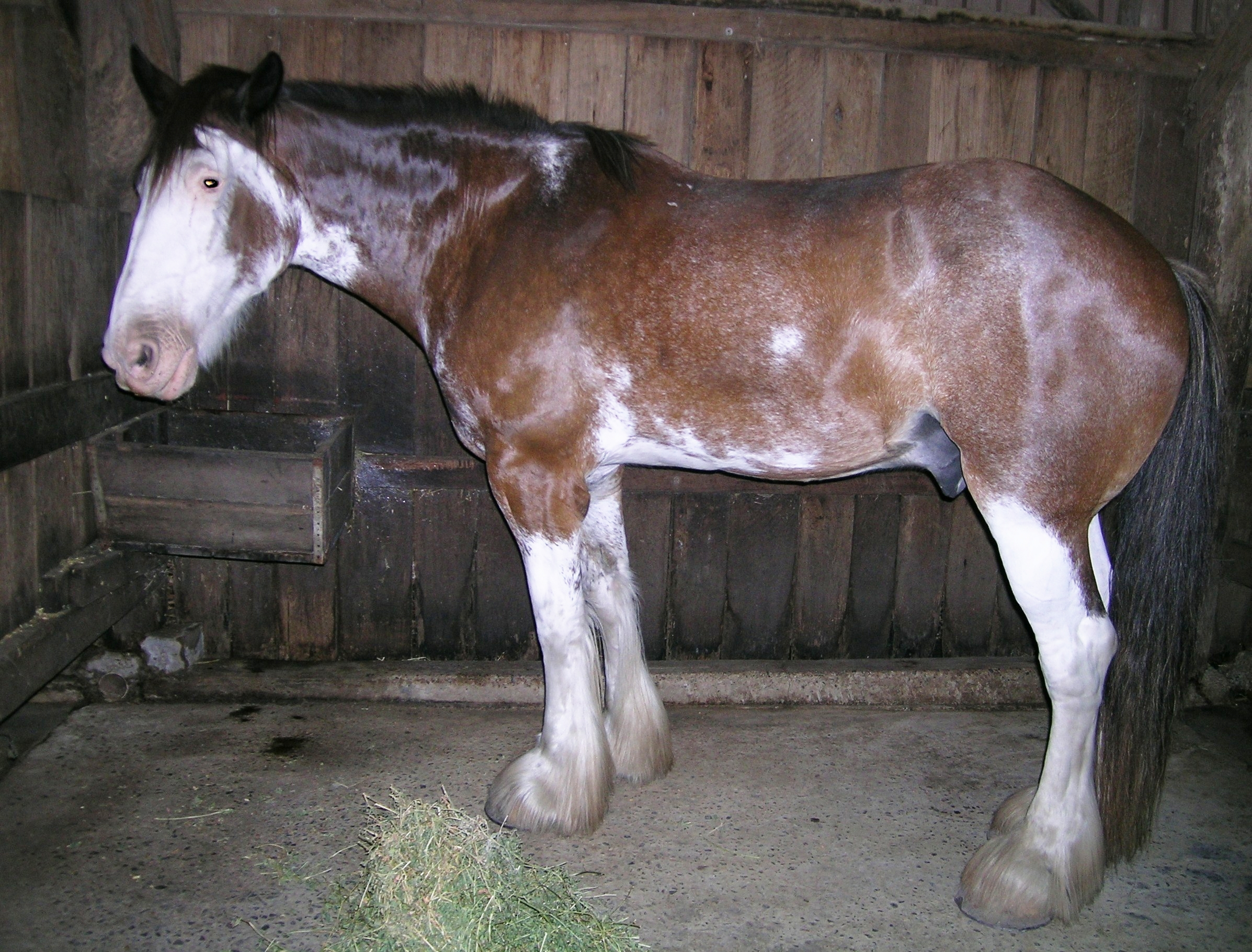 A Clydesdale horse with a very low set tail.